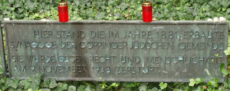 Commemorative plate for the synagogue of Göppingen destroyed by the nazis in 1938